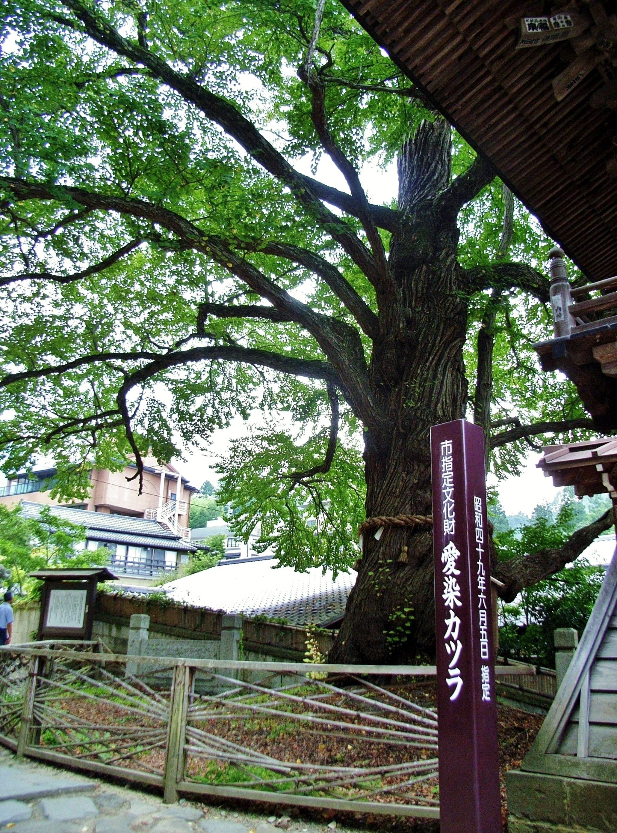 Aizen-katsura tree in Ueda, Nagano pref., Japan.